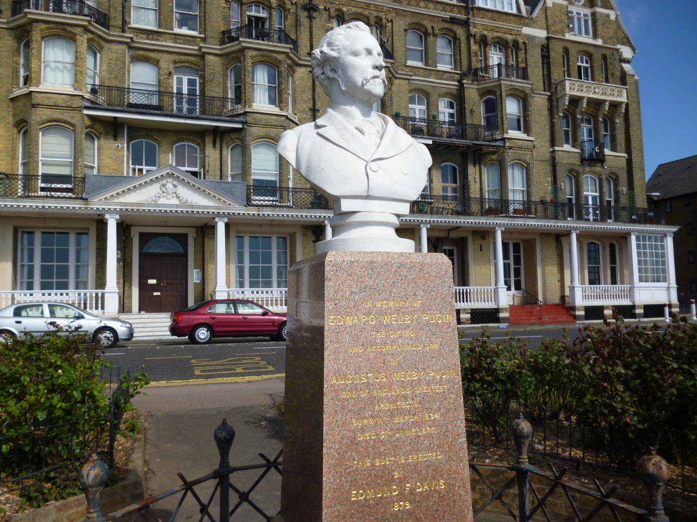 The inscription reads: “In memory of Edward Welby Pugin, the gifted and accomplished son of Augustas Welby Pugin, one of England`s greatest architects: born 11th March, 1834, died 5th June, 1875. This bust is erected by Edmund F. Davis. 1879.” Grade II listed, 4th February 1988.